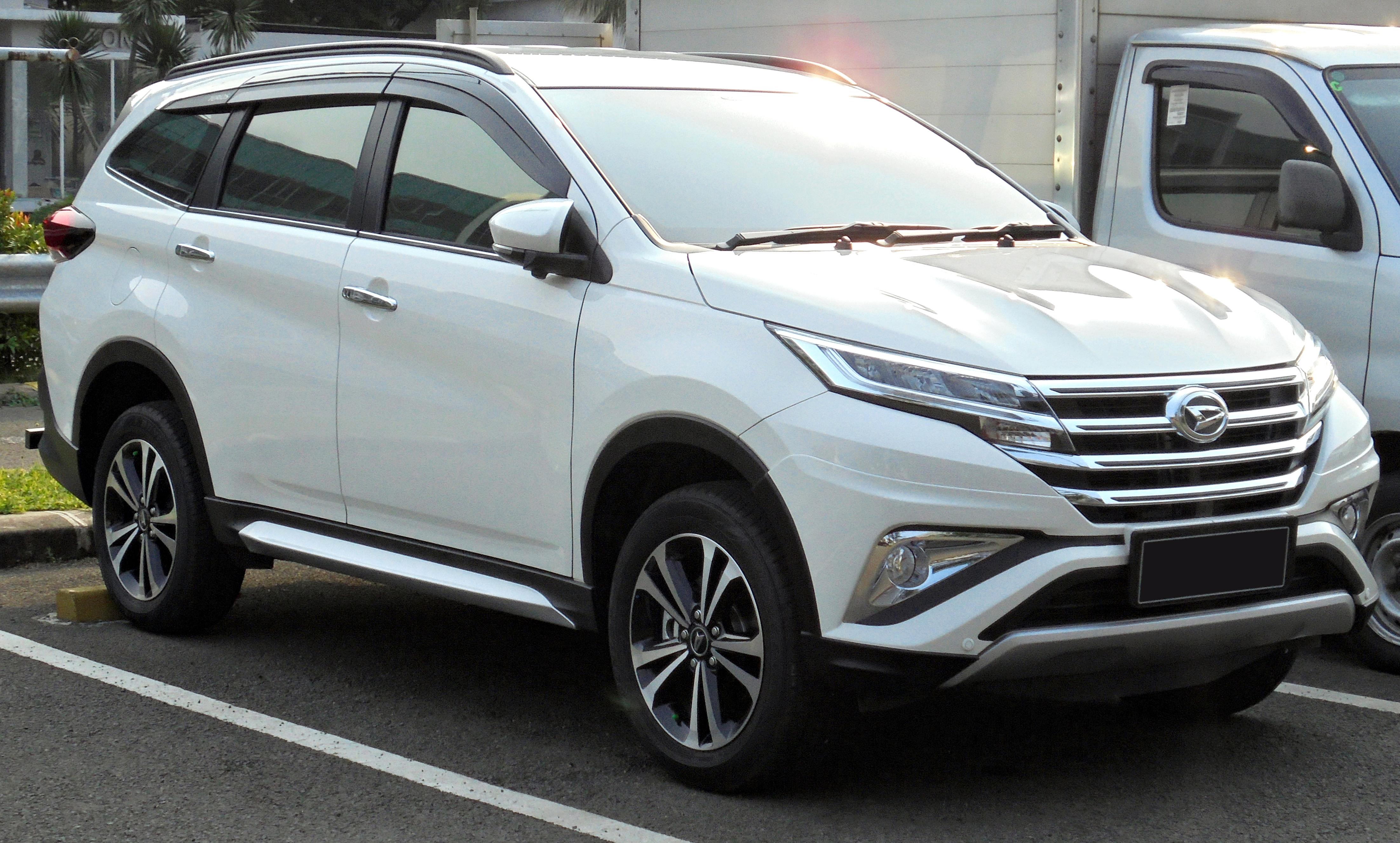 2018 Daihatsu Terios 1.5 R Deluxe wagon (F800RG) photographed in South Tangerang, Banten, Indonesia.